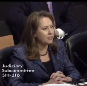 Suzanna Hupp, former Texas state representative, testifying before the Senate Judiciary Committee, February 12, 2013l, recounting how a Texas ban on carrying weapons left her powerless to stop the murder of her parents and 21 others in the 1991 Luby's massacre.